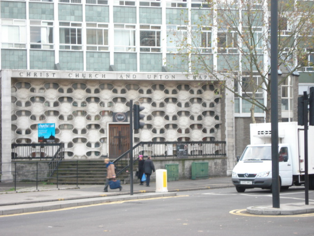 The Christ Church Lambeth postwar building